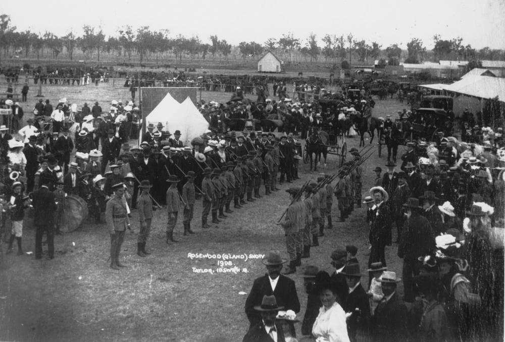 Crowds at the Rosewood show watching cadets formed into a guard of honour for a visiting dignitary, 1908